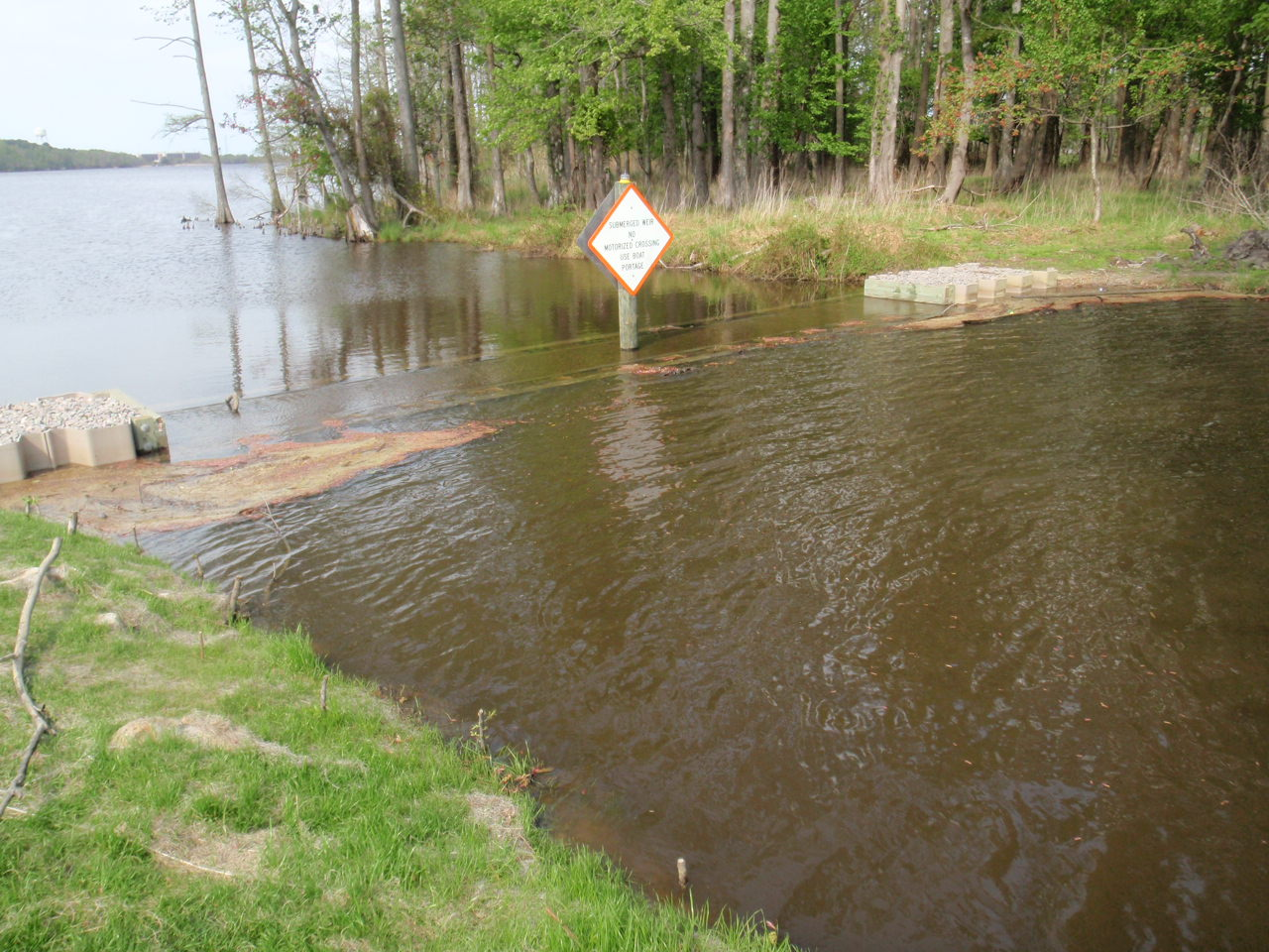 The weir that was installed at Lake Tecumseh to maintain water levels within the lake during signifcant wind events and reduce sedmentation to the Back Bay watershed. Credit: USFWS.